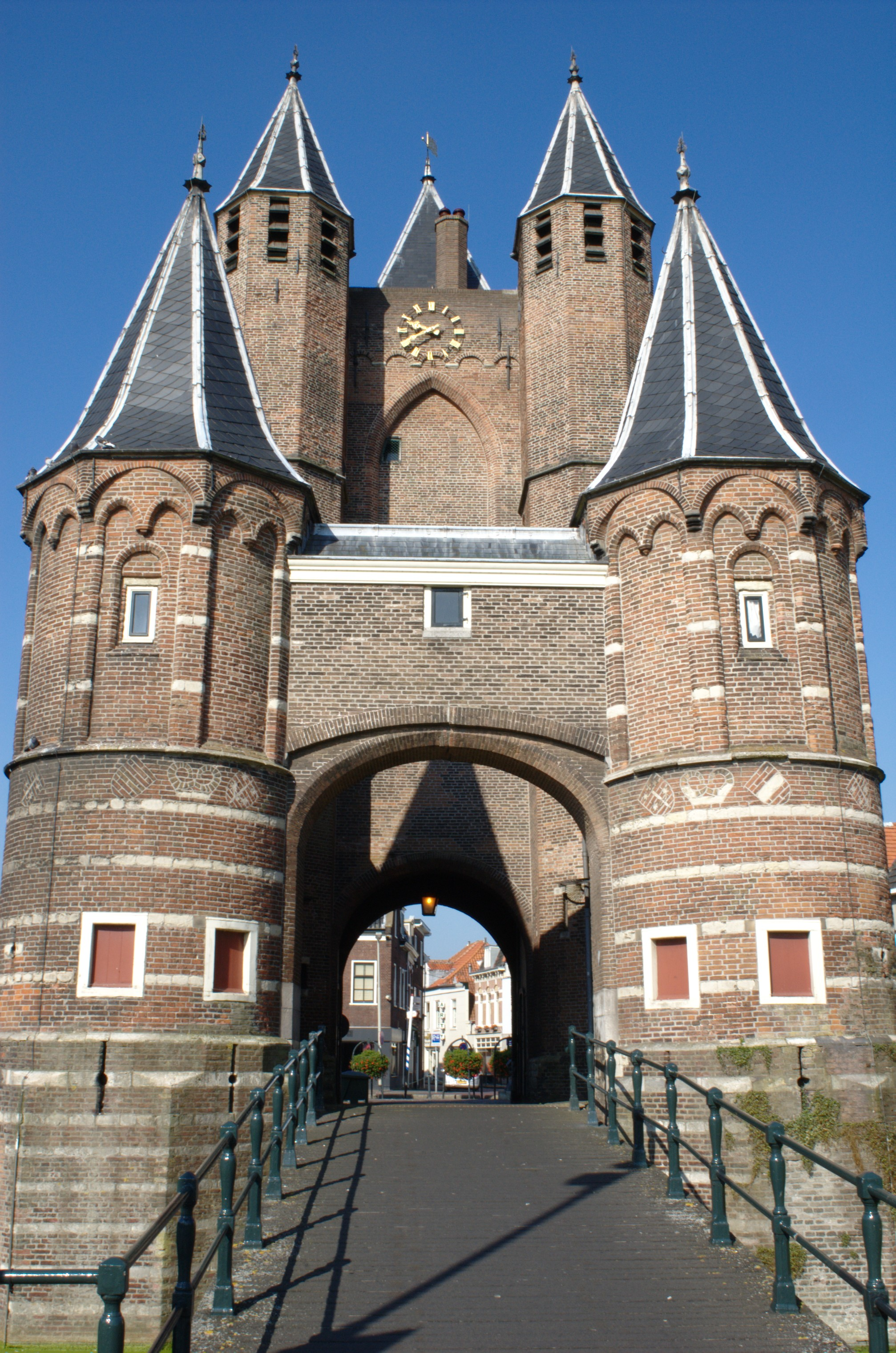 The Spaarnwouder- or Amsterdamse poort is the only gate of Haarlem that is still standing. It's now a landmark next to the road from Haarlem to Amsterdam.